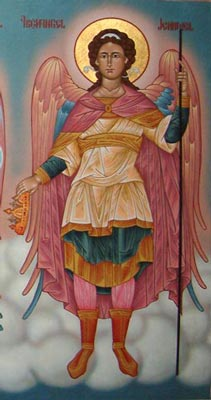 Archangel Jehudiel (lit. "Praise of God"). One of 7 archangels in Orthodox tradition.